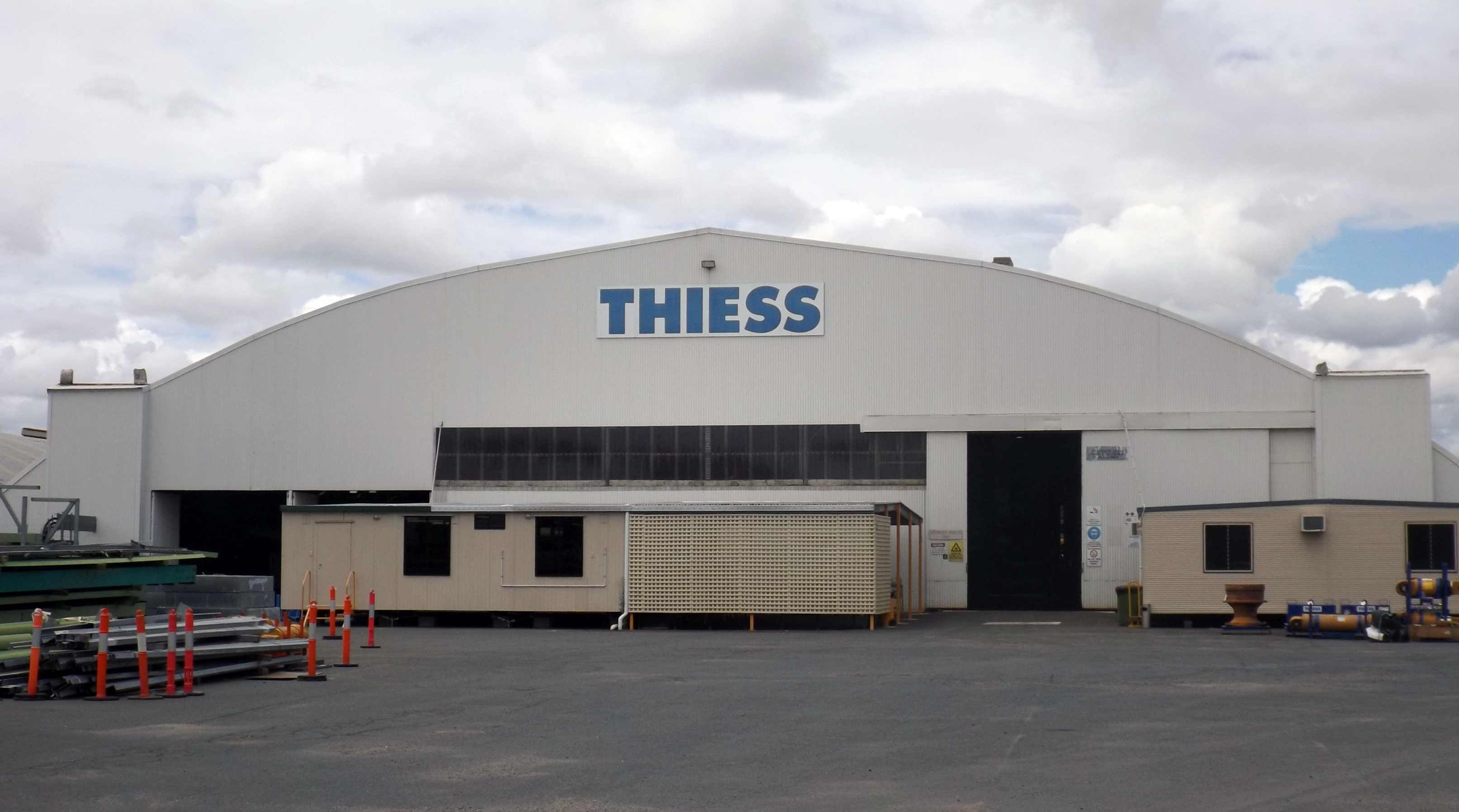 Photo of the front of Igloo No. 4 at Archerfield, Brisbane, Queensland, Australia.